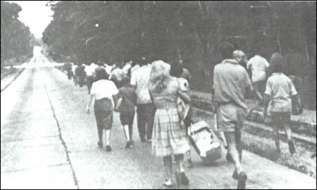 original description: "Refugees on the road to the airfield"[1]